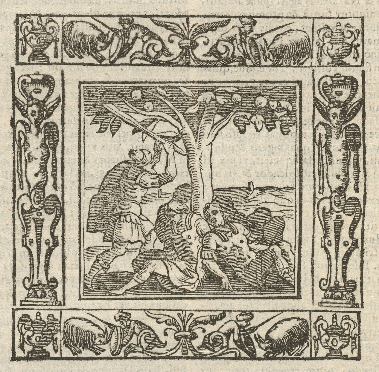 Emblema cxlvi "Consiliarij principum" from Emblemata (1621) by Andrea Alciati, updated by Claude Mignault. Typ 625.21.132, Houghton Library, Harvard University